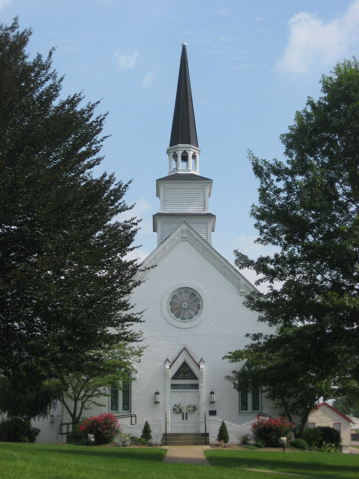 Front of the Brandenburg Methodist Episcopal Church, located at 215 Broadway in Brandenburg, Kentucky, United States. Built in 1855, it is listed on the National Register of Historic Places.